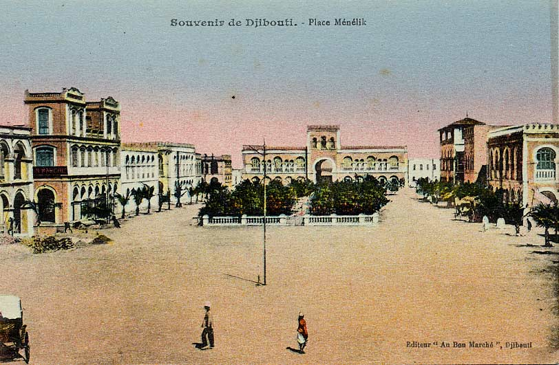 Place Menelik, Djibouti, c1905. Photograph of an original postcard published c1905 by "Editeur, 'Au Bon Marché', Djibouti".